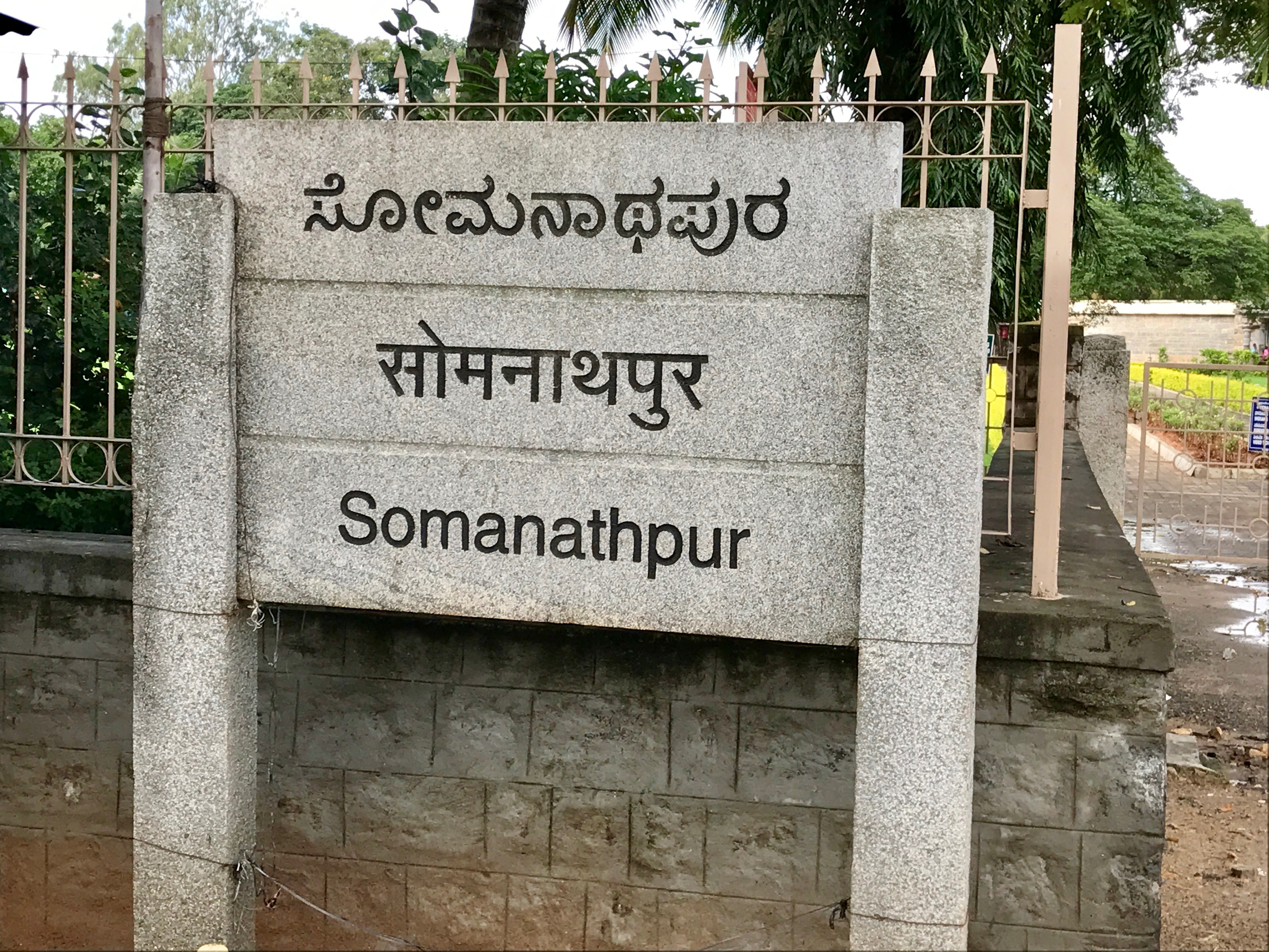 The Chennakesava temple, also called Kesava or Keshava temple, is a Vaishnava Hindu temple. It is located at Somanathapura (Somanathpur) in South Karnataka, in a small village on the banks of the river Cauvery, about 40 km from the city of Mysuru. The temple is one of the finest examples of Hoysala architecture and testament to the sophistication of Hindu art and architecture by the 12th-century. Built by 1268 CE by a commander of Hoysala king Narasimha III, it illustrates fine carvings with extraordinary details. The temple is set on a raised platform, with rotated squares that give it a star foundation shape. The sides of the raised platform show richly carved friezes of cavalry, elephants and numerous scenes from the Hindu epics and mythologies. The temple exterior towards the spire has sculptures of gods, mainly Vishnu avatars, but others including Shiva, Brahma and Vedic gods and goddesses. The temple panels on the exterior have names of the sculptors inscribed.